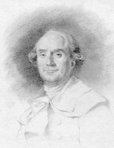 French musicologist Michel Paul Guy de Chabanon (1730-1792).